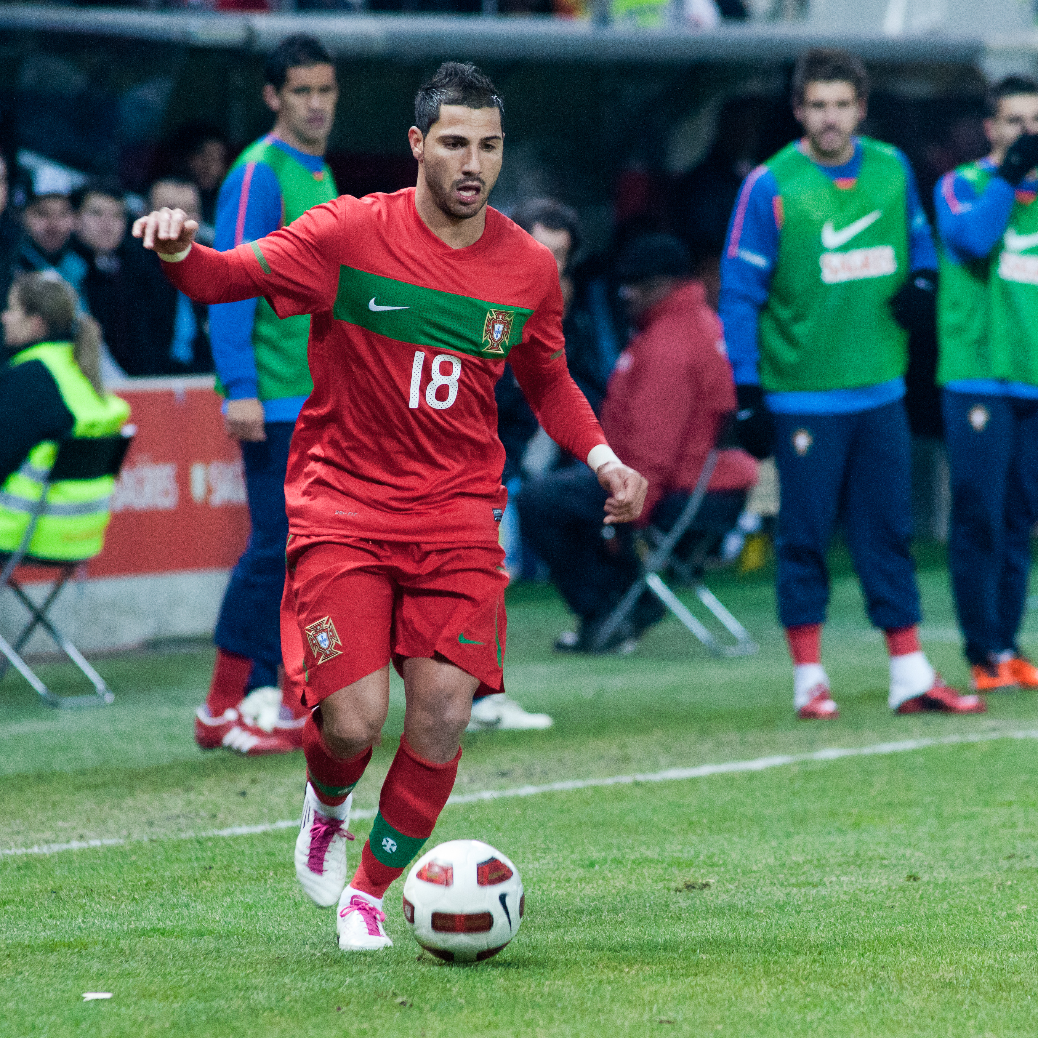 The making of this document was supported by Wikimedia CH. (Submit your project!) For all the files concerned, please see the category Supported by Wikimedia CH. Portugal vs. Argentina, 9th February 2011